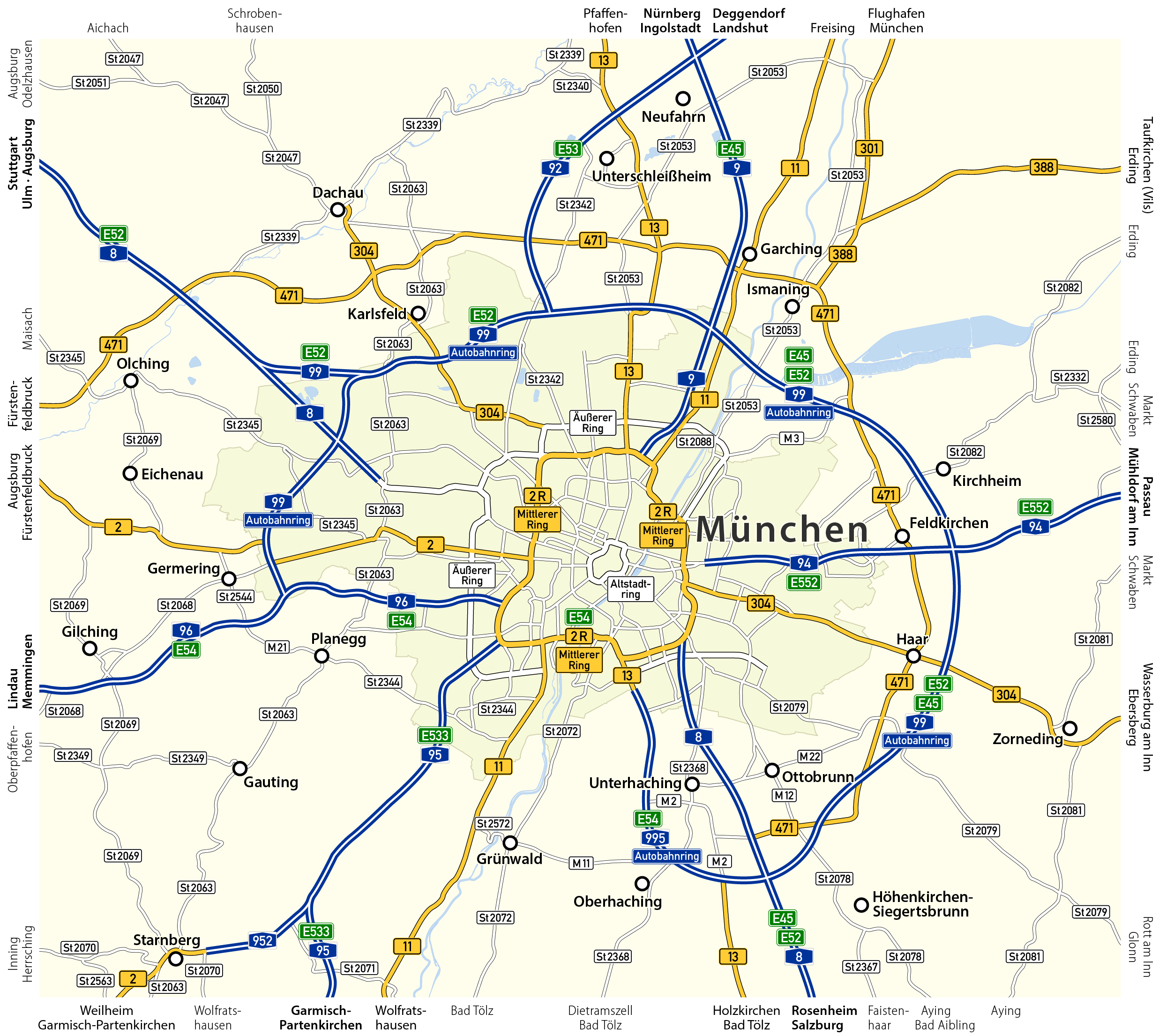 Map of the motorways, federal highways and other important roads in and around Munich